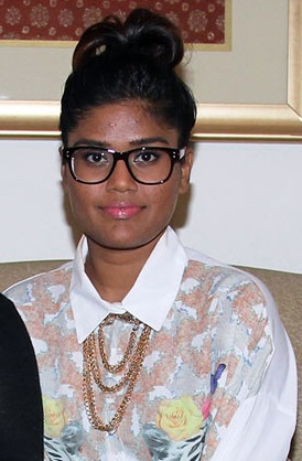 Unoosha at Jism 3 recording